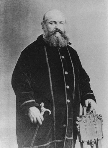 Eliphas Levi, a French occult author and magician.